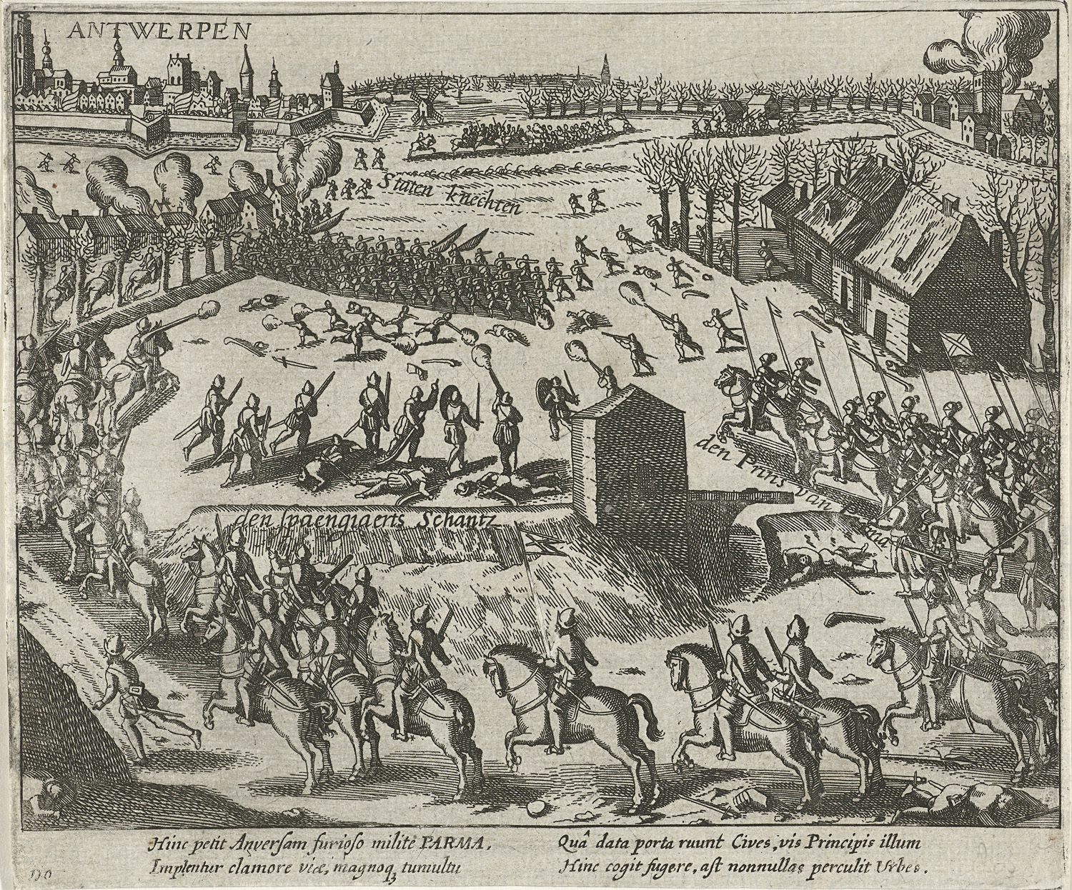 Battle at Borgethout near Antwerp, Belgium. On 2 march 1579 between the Statenarmy and Parma.